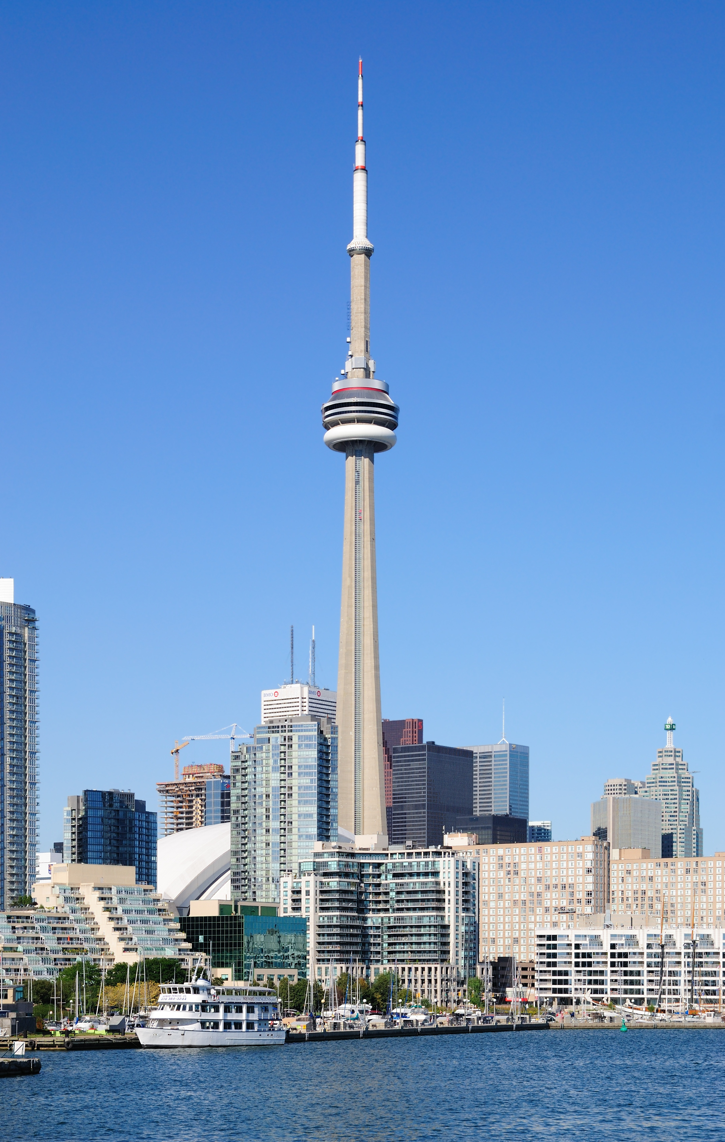 The CN Tower and the Toronto Harbour viewed from the Toronto City Centre Airport.